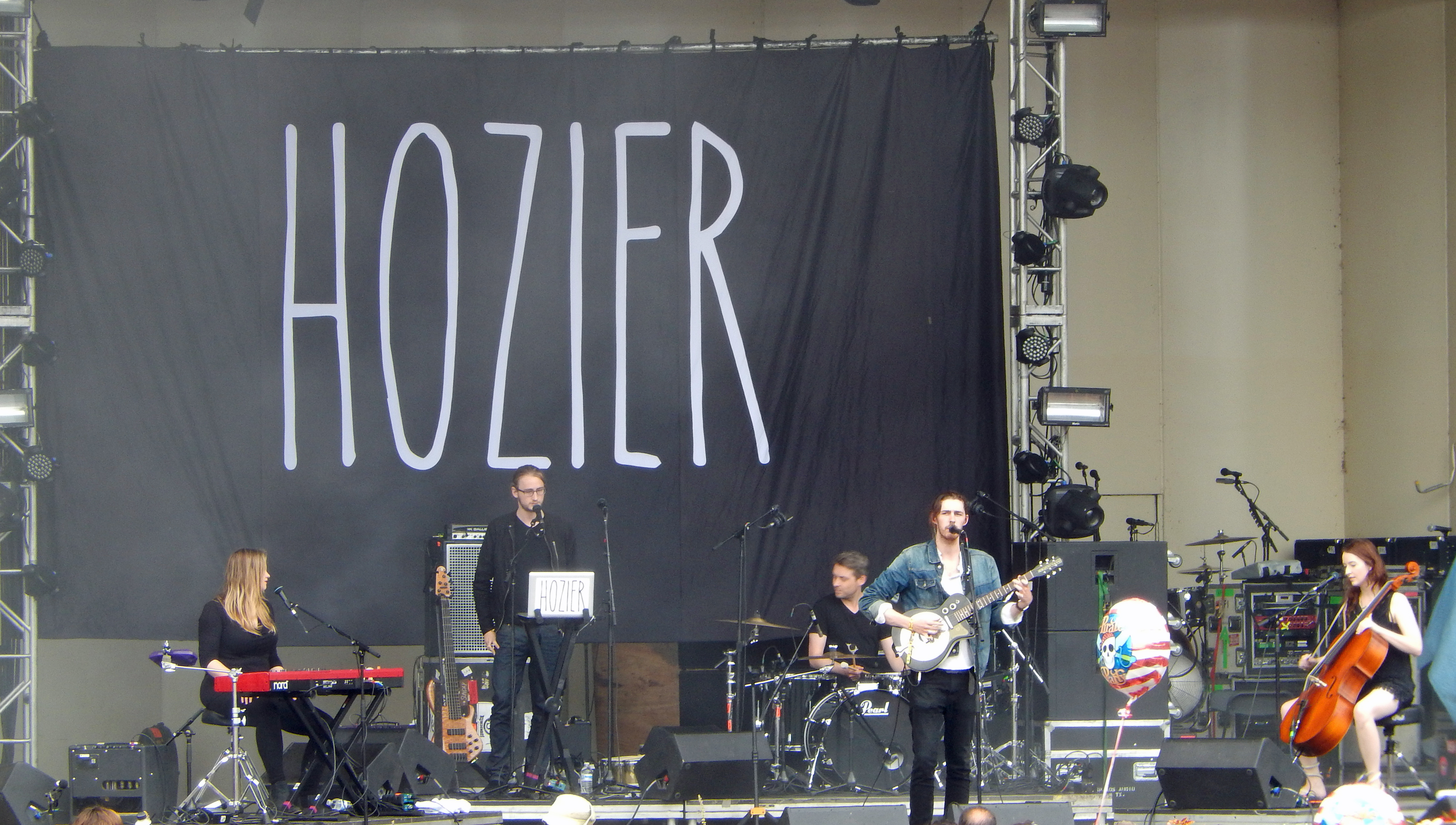 Lollapalooza, Chicago 8/1/2014